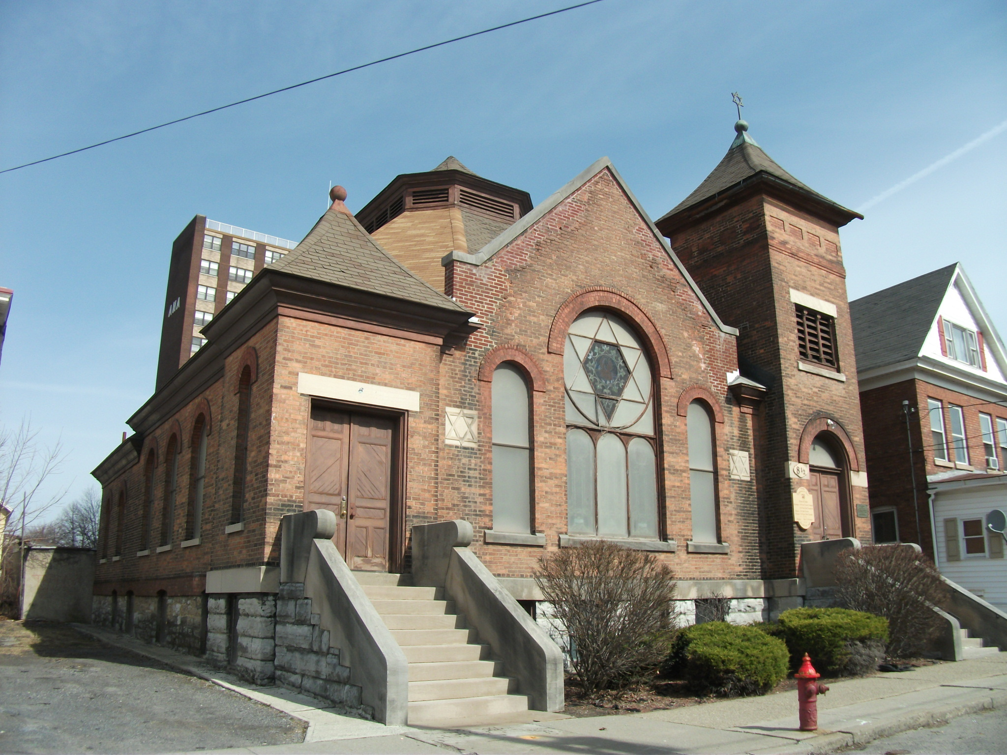 Temple of Israel, Amsterdam NY, April 2011